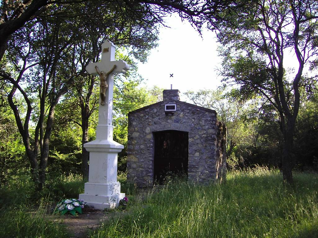 Memorial chapel in the ruined village Derenk, Hungary. Built in 1994.